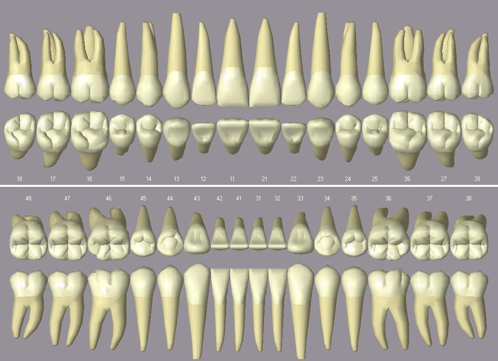 Chart created with Open Dental